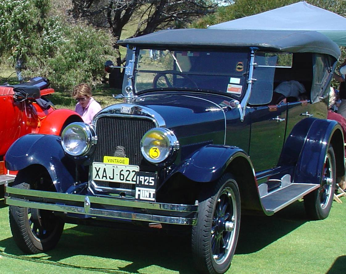 Photograph taken by myself on 16 Oct 2005 at the RAC Centenary Rally, Cottesloe, Western Australia, using Sony DSC V-1 camera. Detail cropped from original digital frame number Dsc00879, size 2,225kB